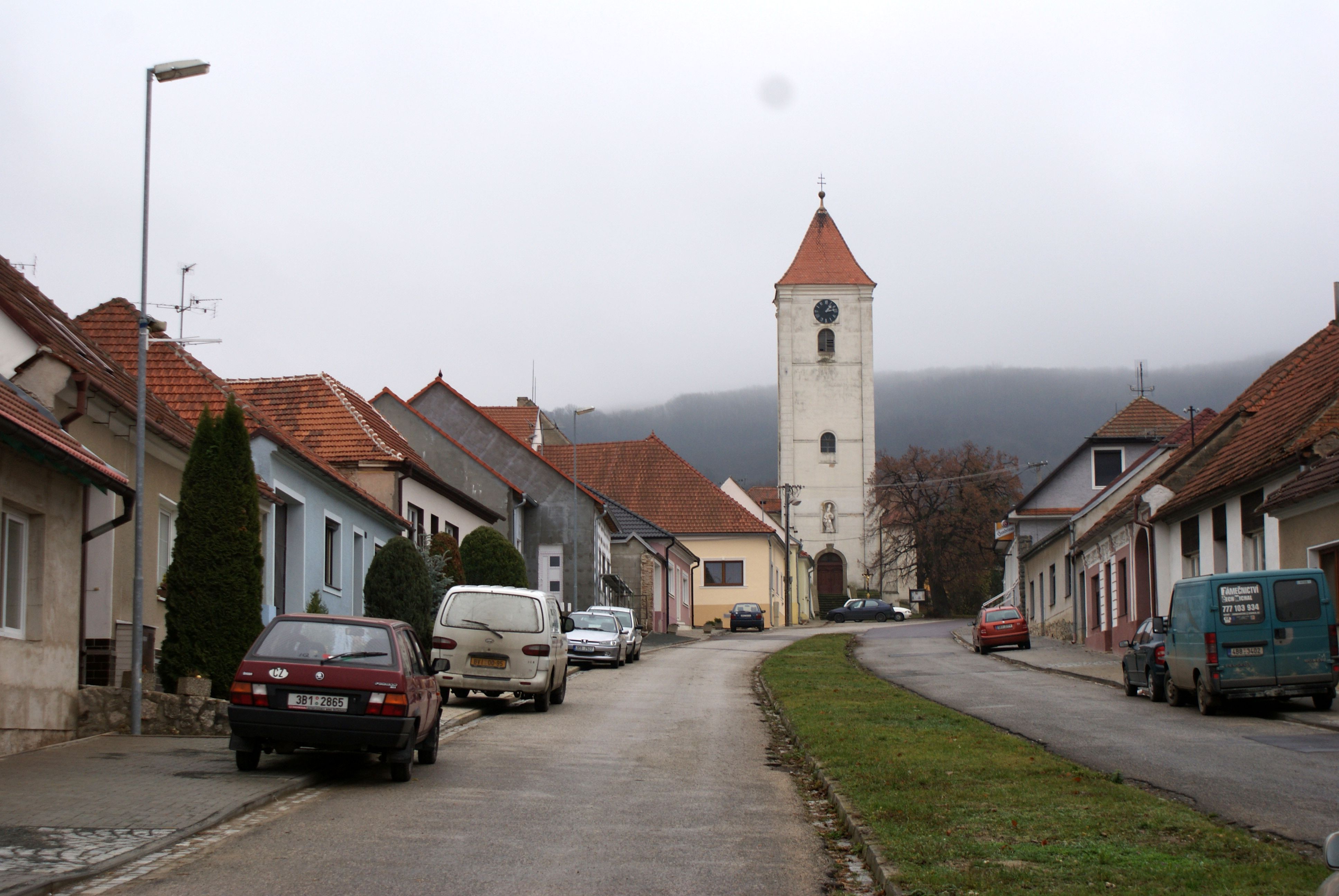 The upper part of the Perná village commons